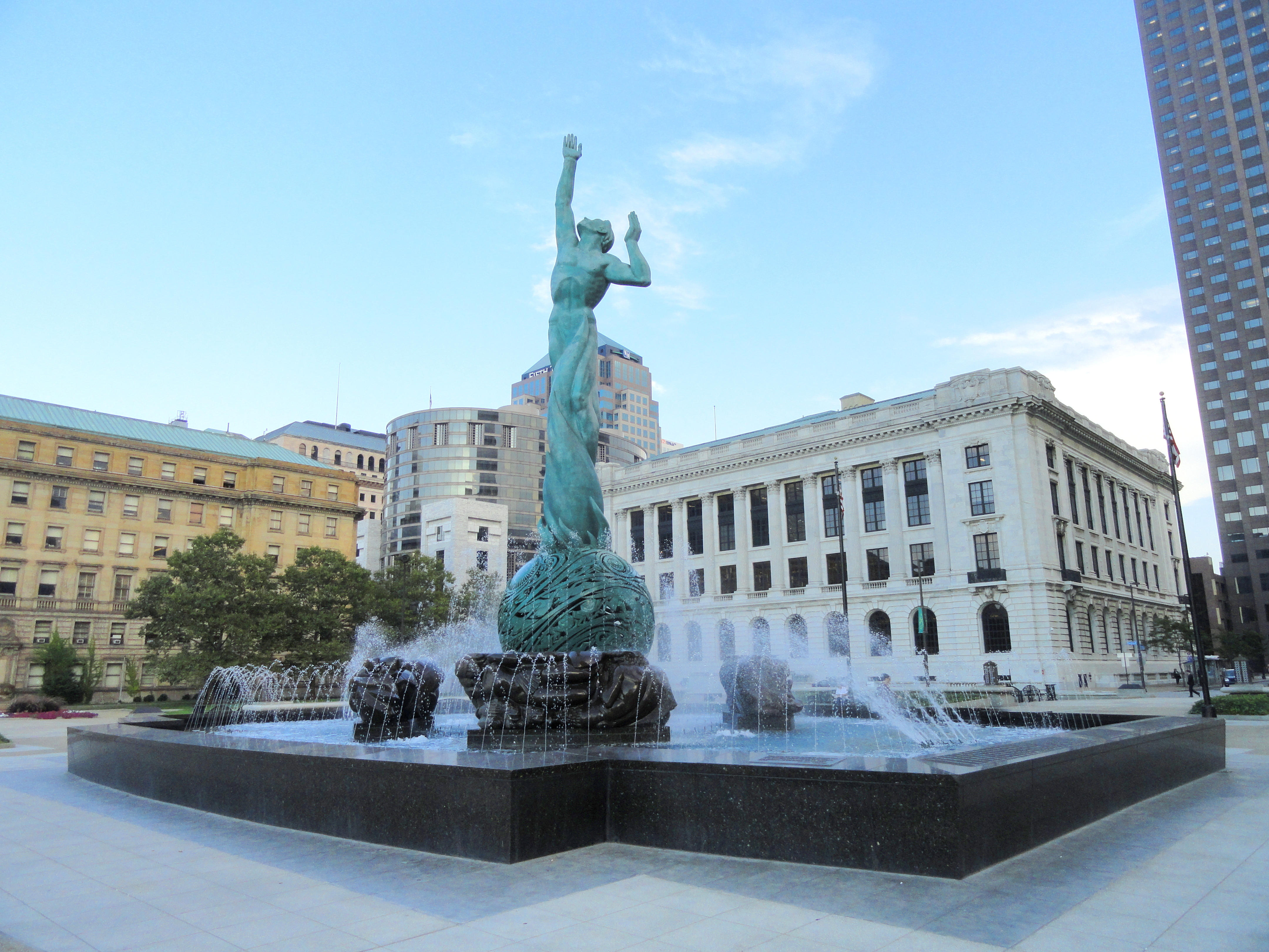 Fountain of Eternal Life, Cleveland, Ohio, USA. Sculptor: Marshall Fredericks. According to the SIRIS record, the fountain was cast in 1962 and dedicated on May 31, 1964. There is no mention of a copyright notice in the description and thus it is assumed to be public domain in the United States by virtue of being published without any such notice.